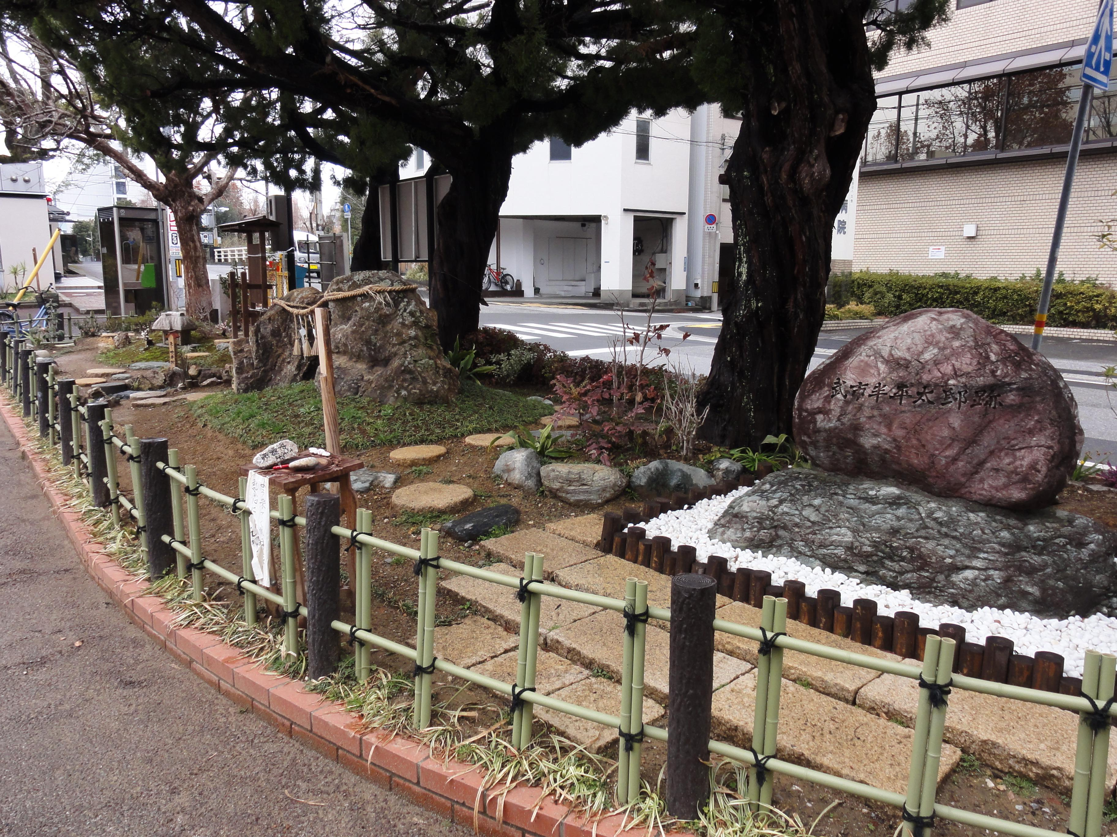 Monument Takechi house mark,Kochi Pref., Japan